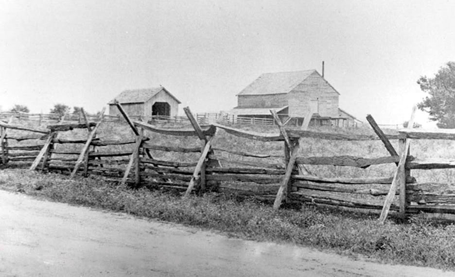 The Carter House Cotton Gin at Franklin, Tennessee, scene of some of the fiercest fighting during the Battle of Franklin in 1864. Other information No date or author given in the source, but it states "early 1880's photo." Has been published in several other online sources, and is clearly in the public domain.